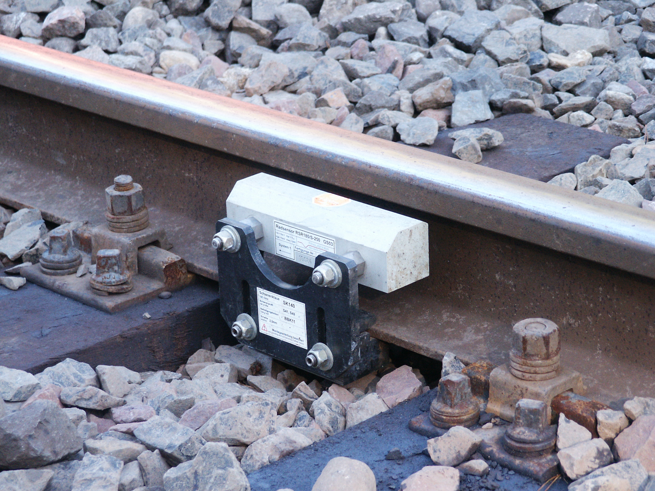 Showing the head of an axle counter mounted on a Polish railway track.